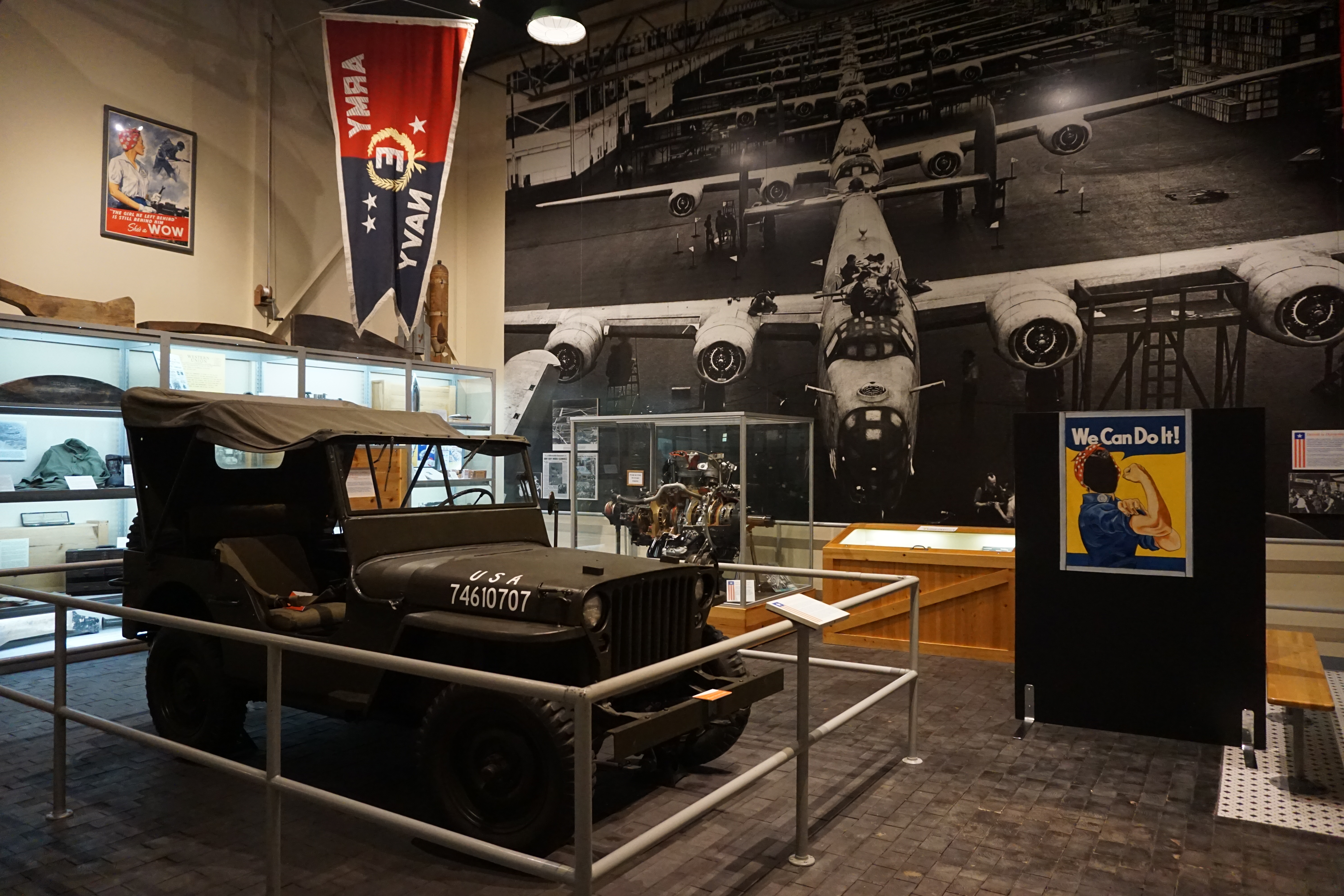 The Arsenal of Democracy exhibit at the Michigan History Museum in Lansing, Michigan (United States).